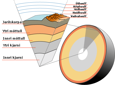 This image depiction of the composition of the earth, crust, mantle and core, in a cutaway view. The image was adapted from Earth-crust-cutaway-english.png Image:Earth-crust-cutaway-english.png, which was created by Jeremy Kemp 1/9/2005, uploaded to Wikimedia Commons, and placed in the public domain. The adaptation consisted only of changing the text accompanying the image from English to Icelandic. The adaptation is of course also in the public domain.